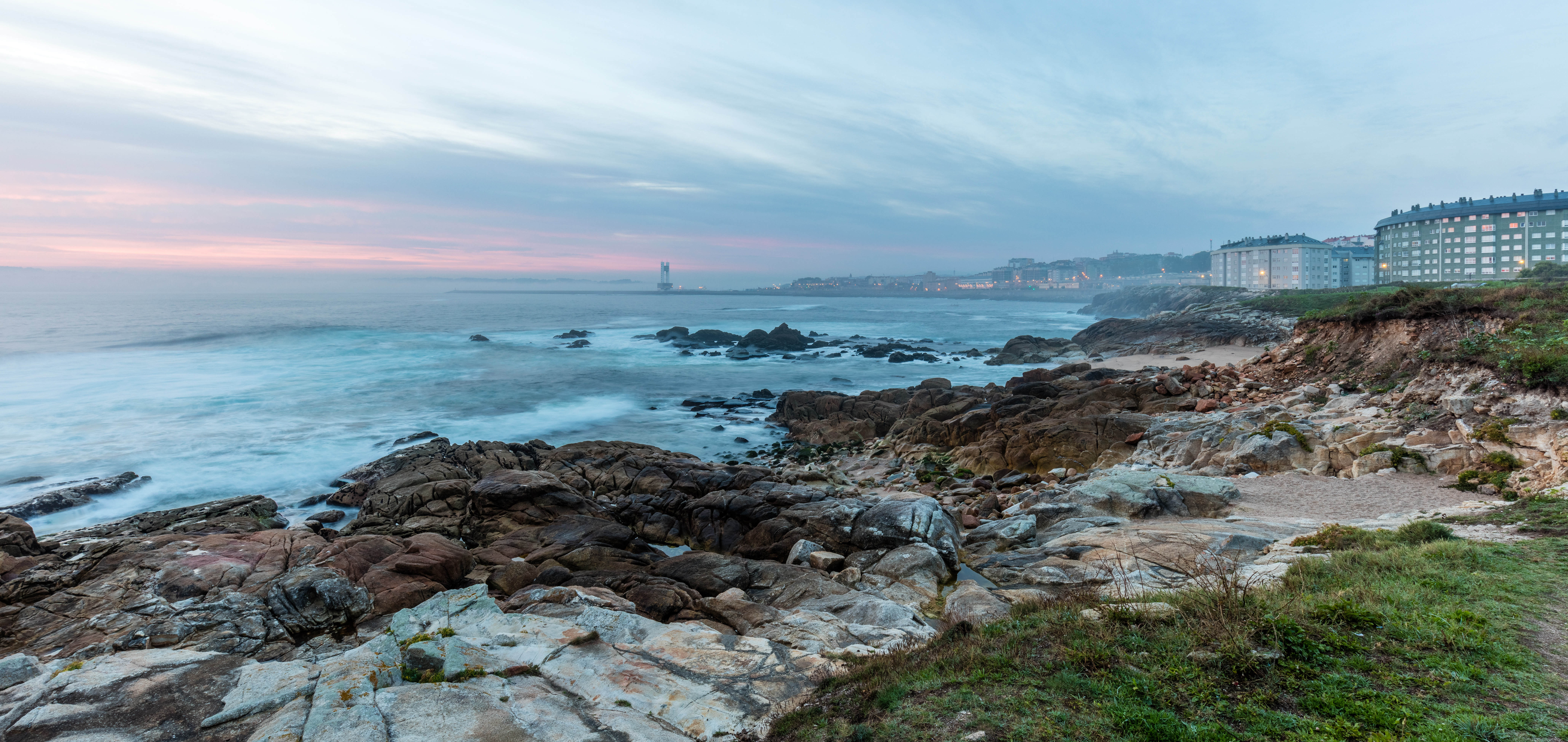 Coast of La Coruña, Spain